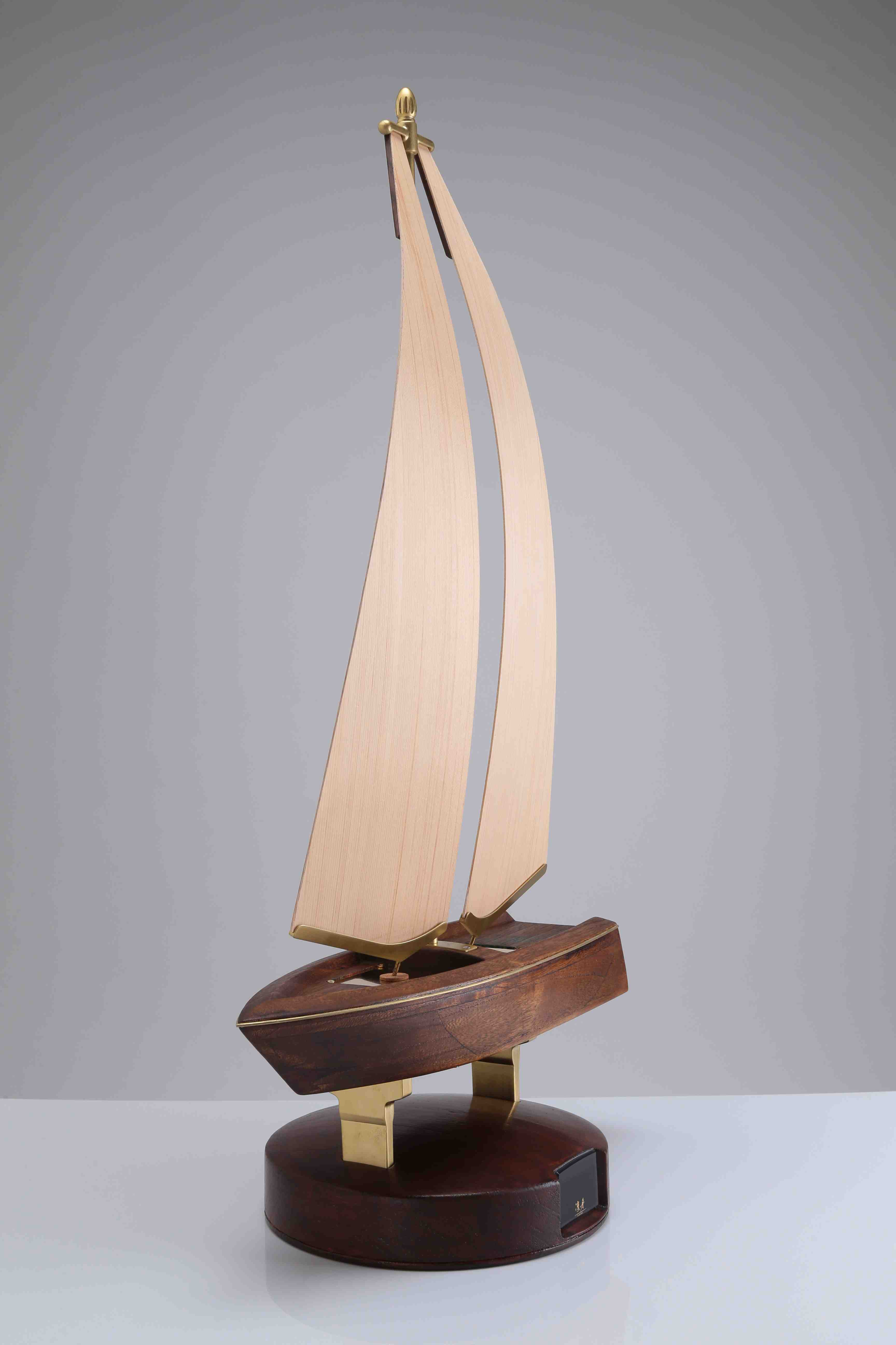 Total Soundcare System "RINSHU"